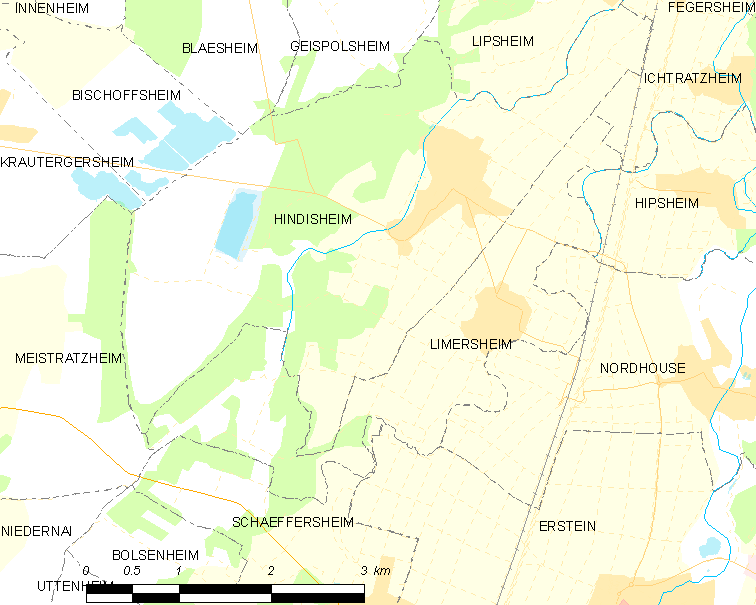 Map of French municipality